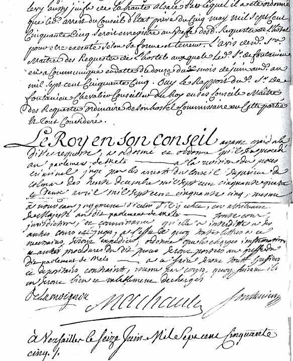 Jugement of the privy council of King Louis XV, dated June, 16, 1755